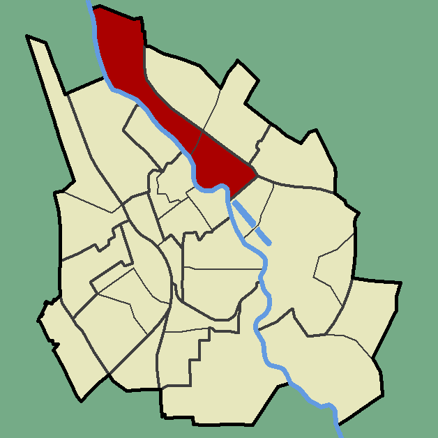 Locator map of Ülejõe, Tartu, Estonia.